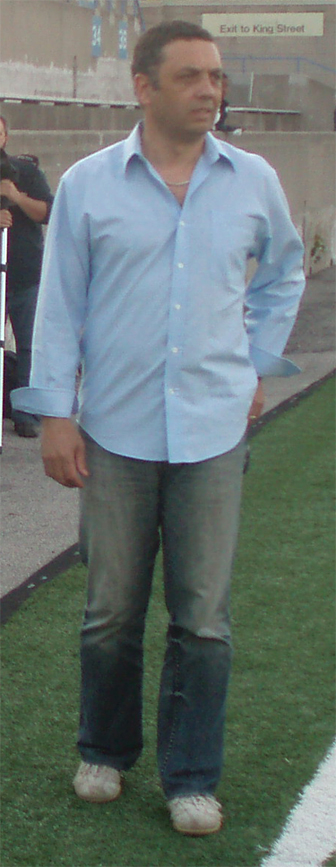 Rafael Carbajal as head coach of the Serbian White Eagles in 2009.